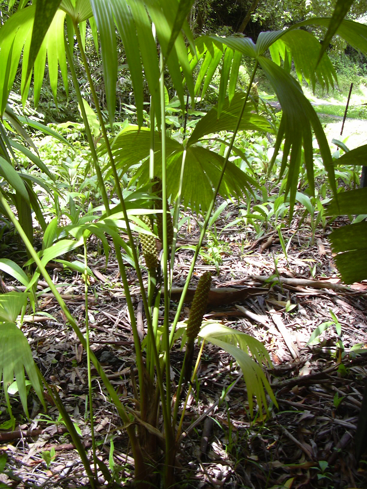 Carludovica palmata (habit). Location: Maui, Keanae Arboretum